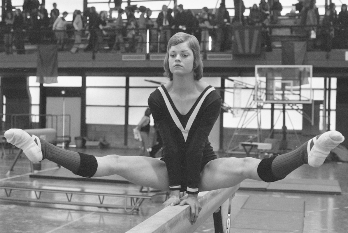 Ans Dekker